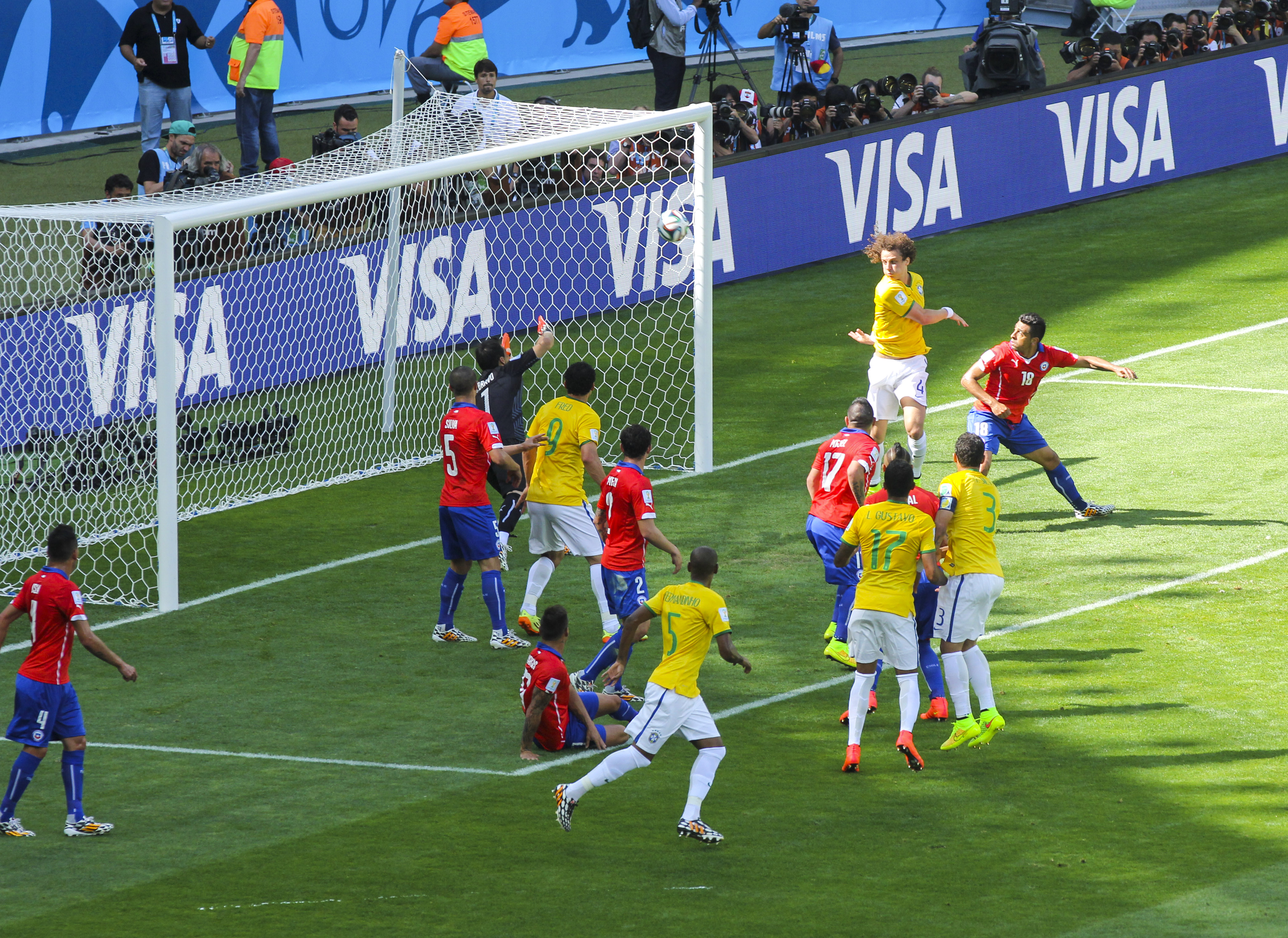 Brazil vs. Chile in Mineirão